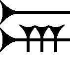 Cuneiform sign IR (GAGgunû)